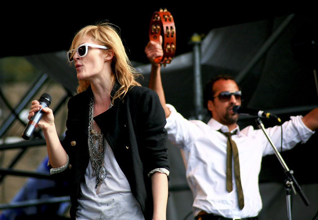 Emily Haines and bassist Josh Winstead of Metric